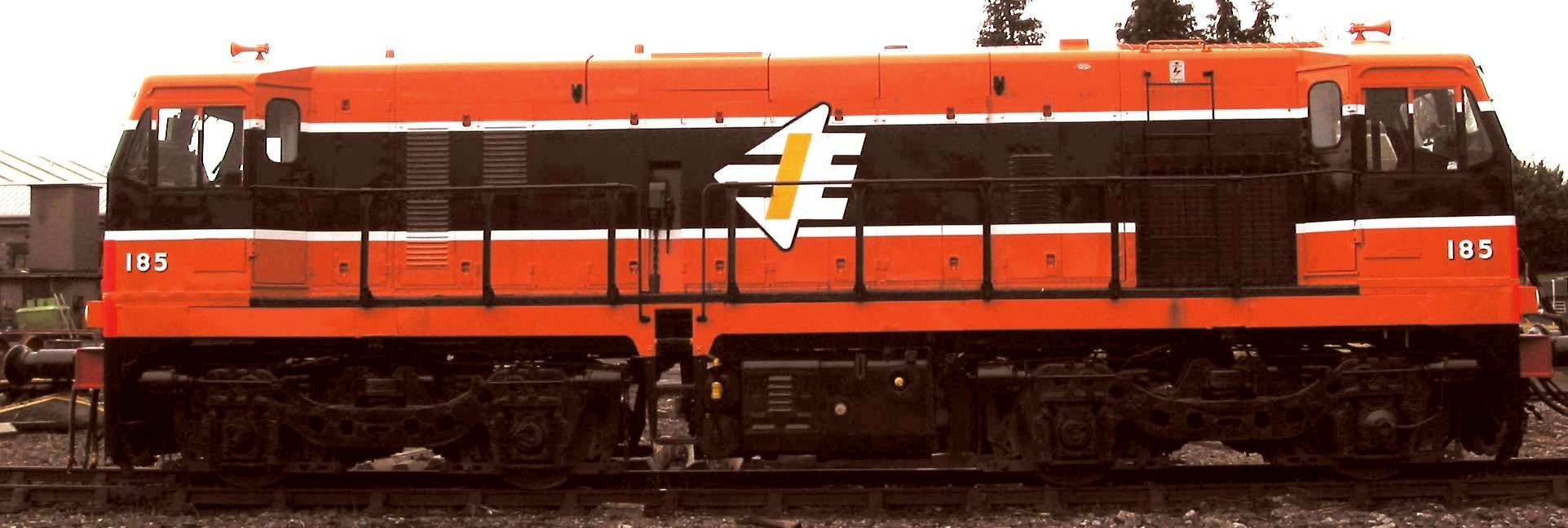 original digital imageSuckindiesel